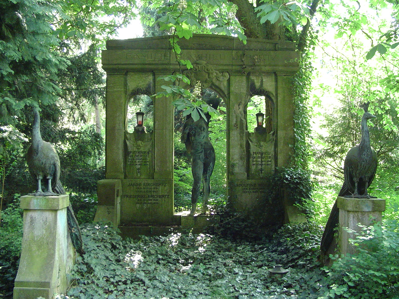 Südfriedhof Cemetery, Cologne, Germany